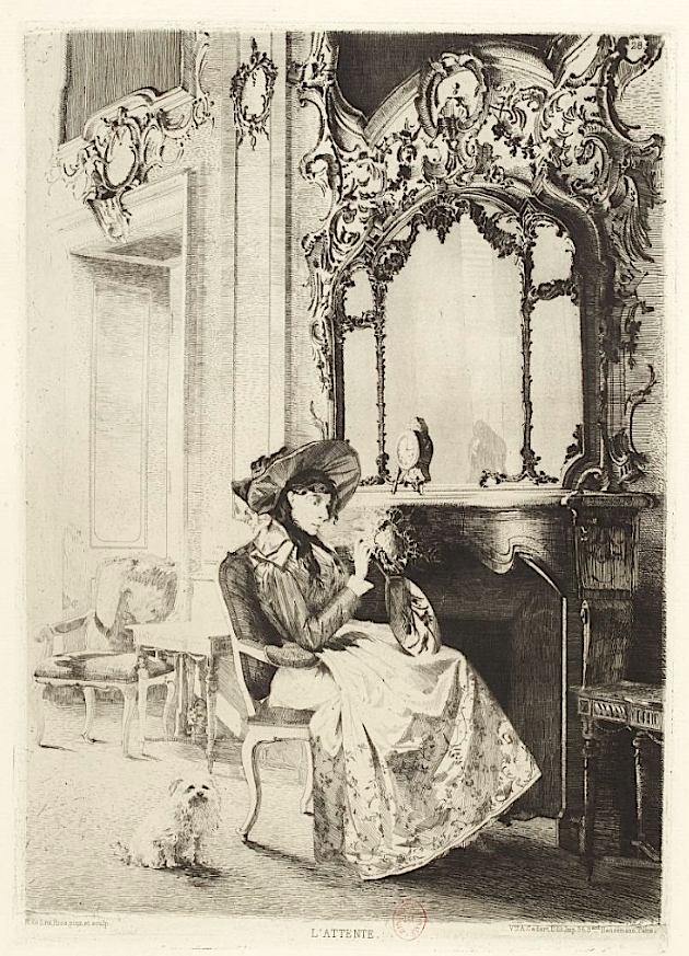 L'Attente, etching in L'Eau forte en 1877, Paris, Vve Cadart.